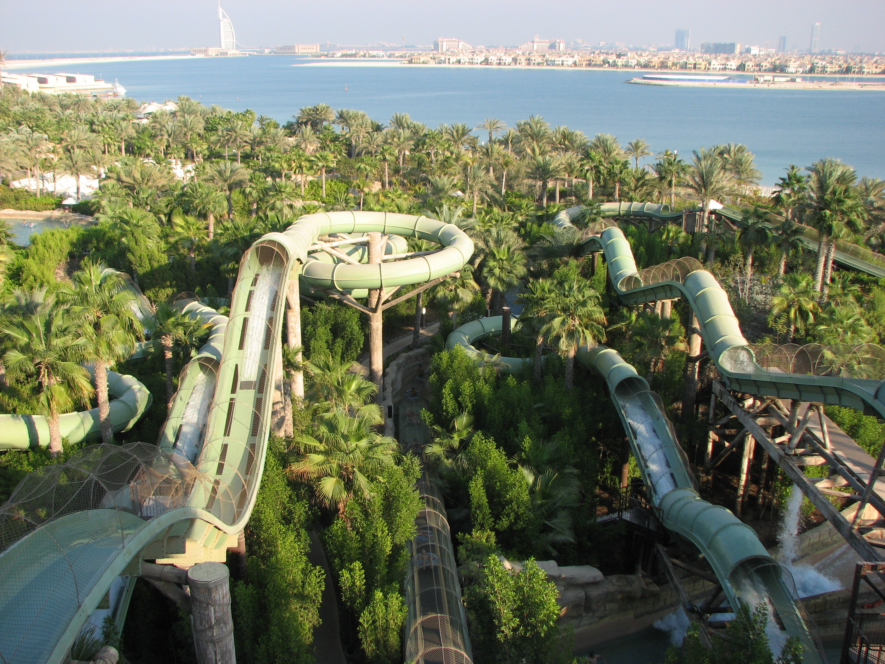 Aquapark in Atlantis